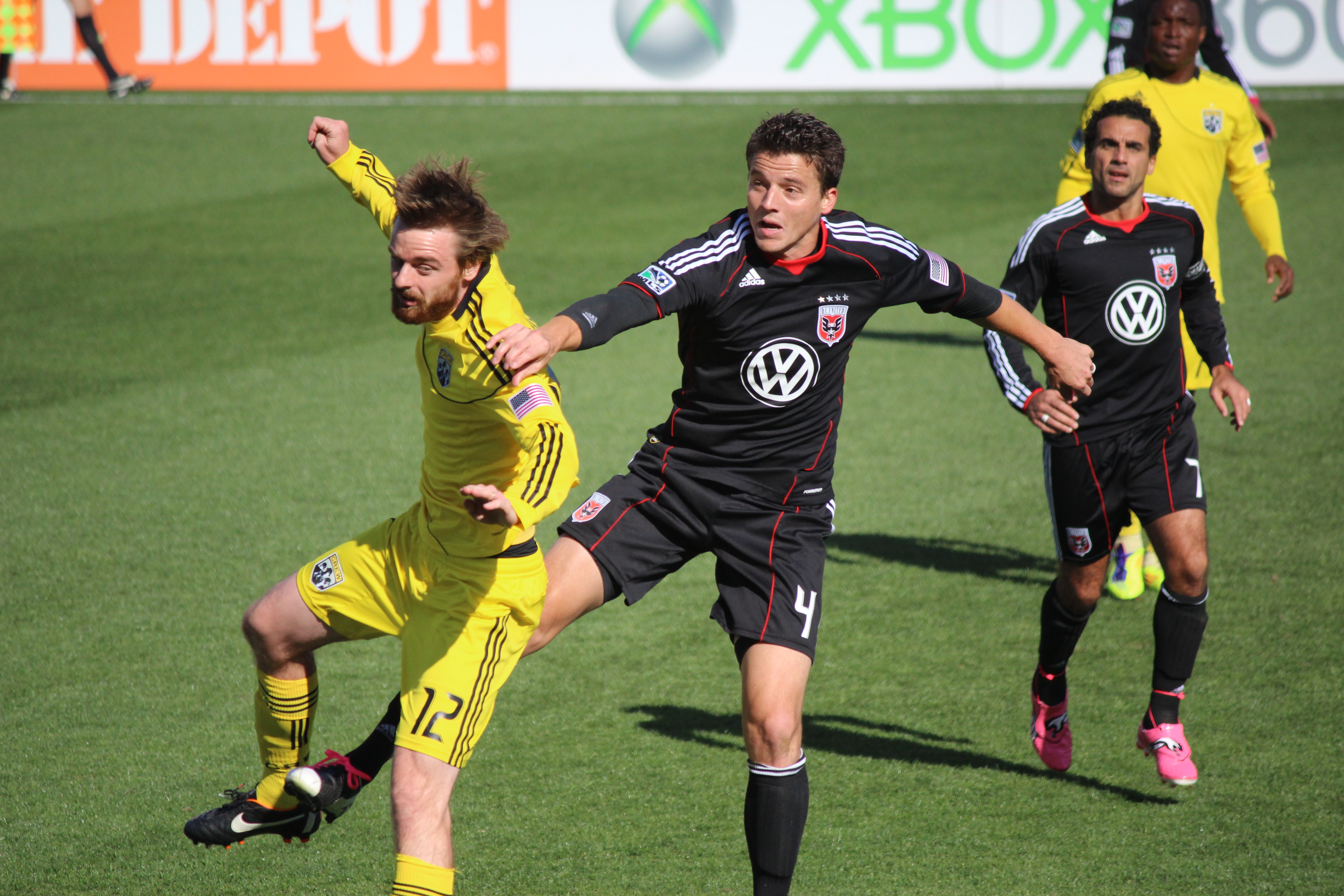 Columbus Crew midfielder, Eddie Gaven, competes for a header against D.C. United defender, Marc Burch, during a regular season match at Columbus Crew Stadium on October 2, 2011 that ended in a 2-1 loss for United.